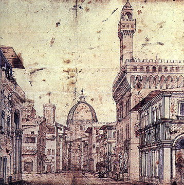 Drawing by Lanzi of a perspective view of Firenze (Palazzo Vecchio and Brunelleschi's dome of Santa Maria del Fiore) The precise perspective was obtained using the surveying equipment he invented himself. The image itself suggests Lanci's secondary career as a set designer. Drawing over 200 years old thus in public domain by virtue of age